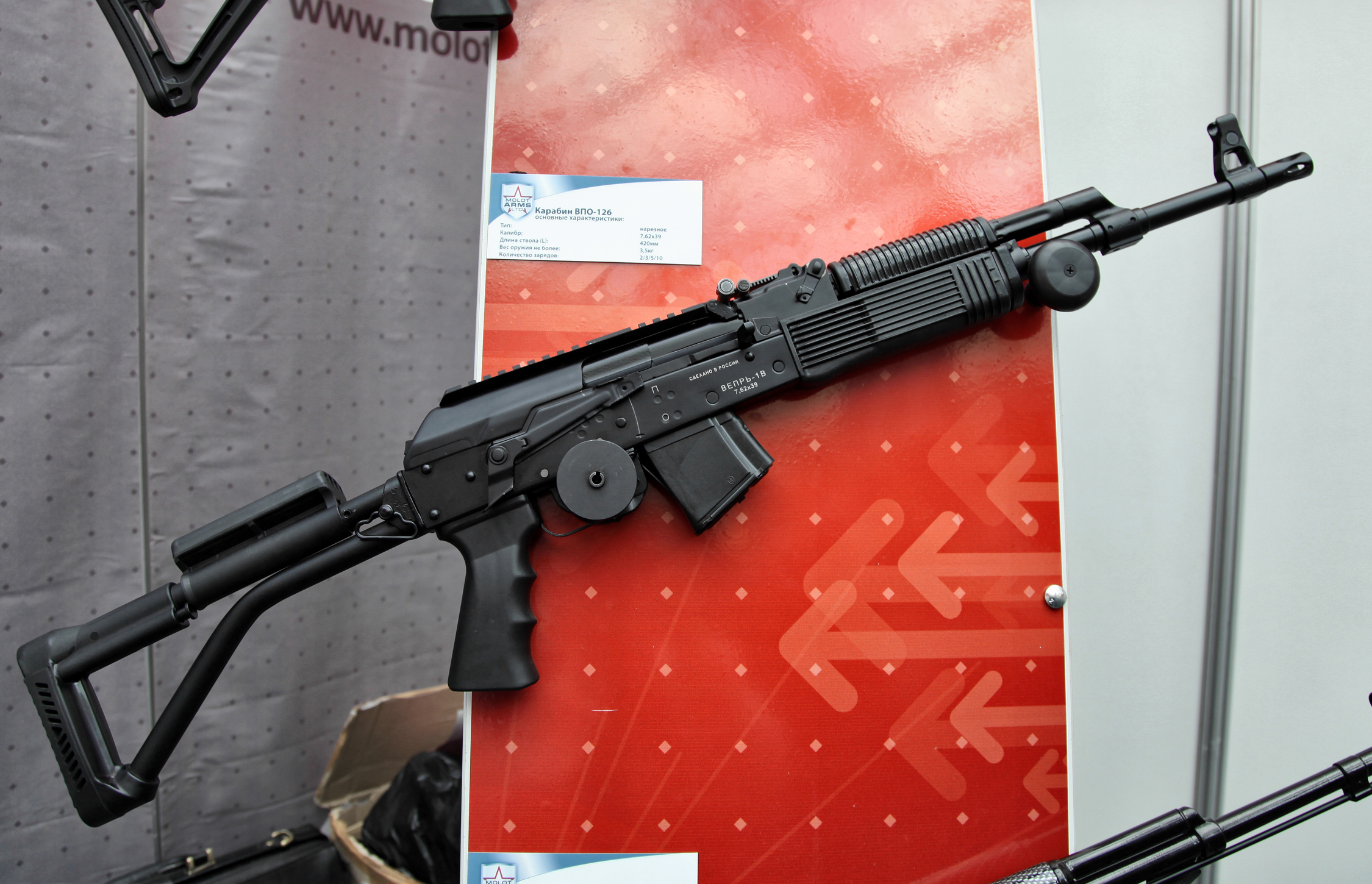 7,62x39 Vepr-1V VPO-126 at ARMS & Hunting 2012